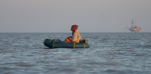 Erin McKittrick, Ground Truth Trekking, own work